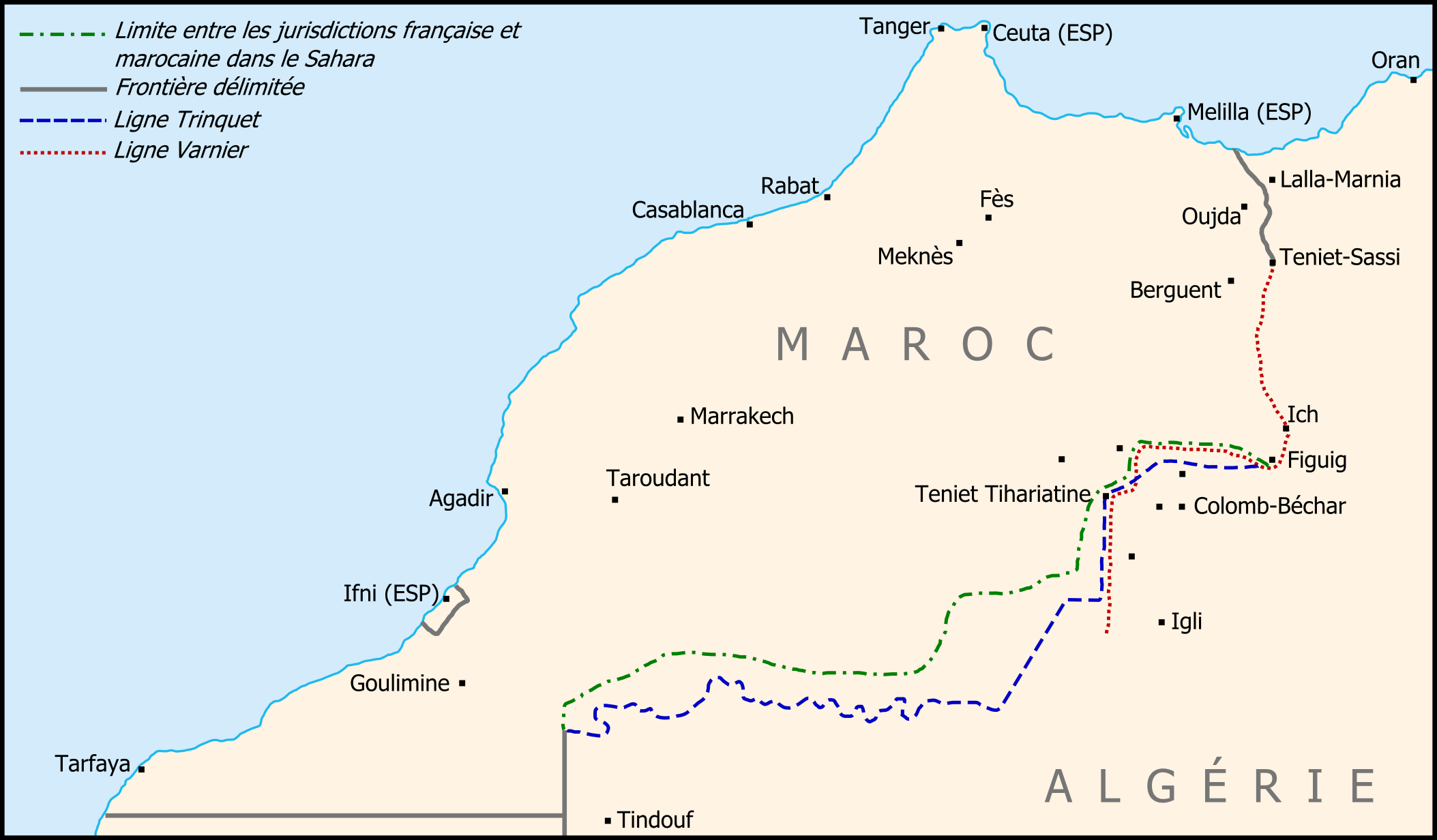 Border between Morocco and Algeria (1963)